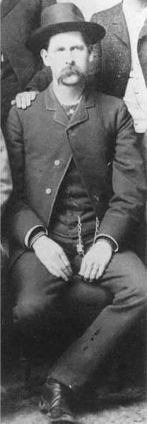 Photo of Wyatt Earp in Dodge City in June, 1883.